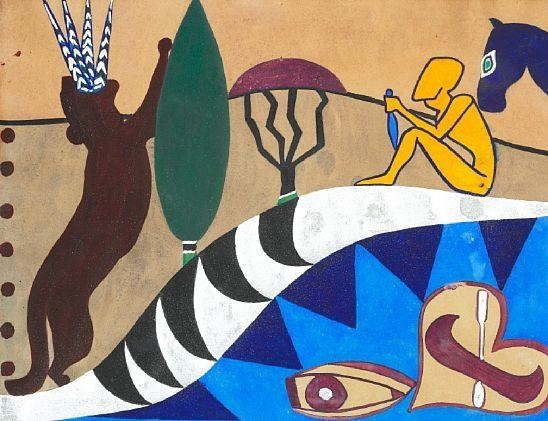 'Evening af the River', Painting by Gustaf Munch-Petersen